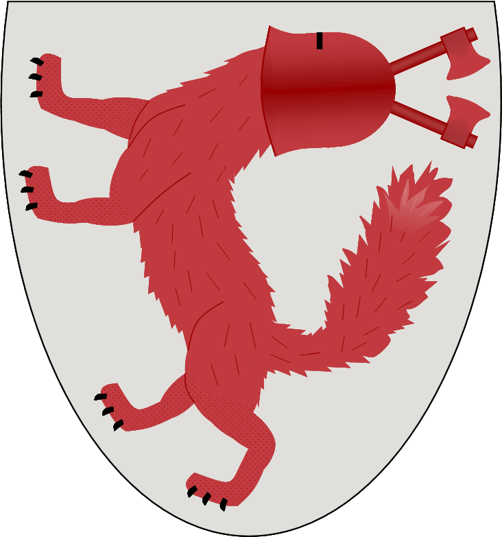 Heraldic shield based on seal of Jørund Arneson of Foss, Norway from 1374. Simple depiction in red and grey/silver colours, approximately as used by 20th/21st-century descendants. Blazon could be "Argent a Fox rampant and spectant Gules wearing Helm issuant two Axes heads sinister blades inwards of the same, armed and orbed Sable"